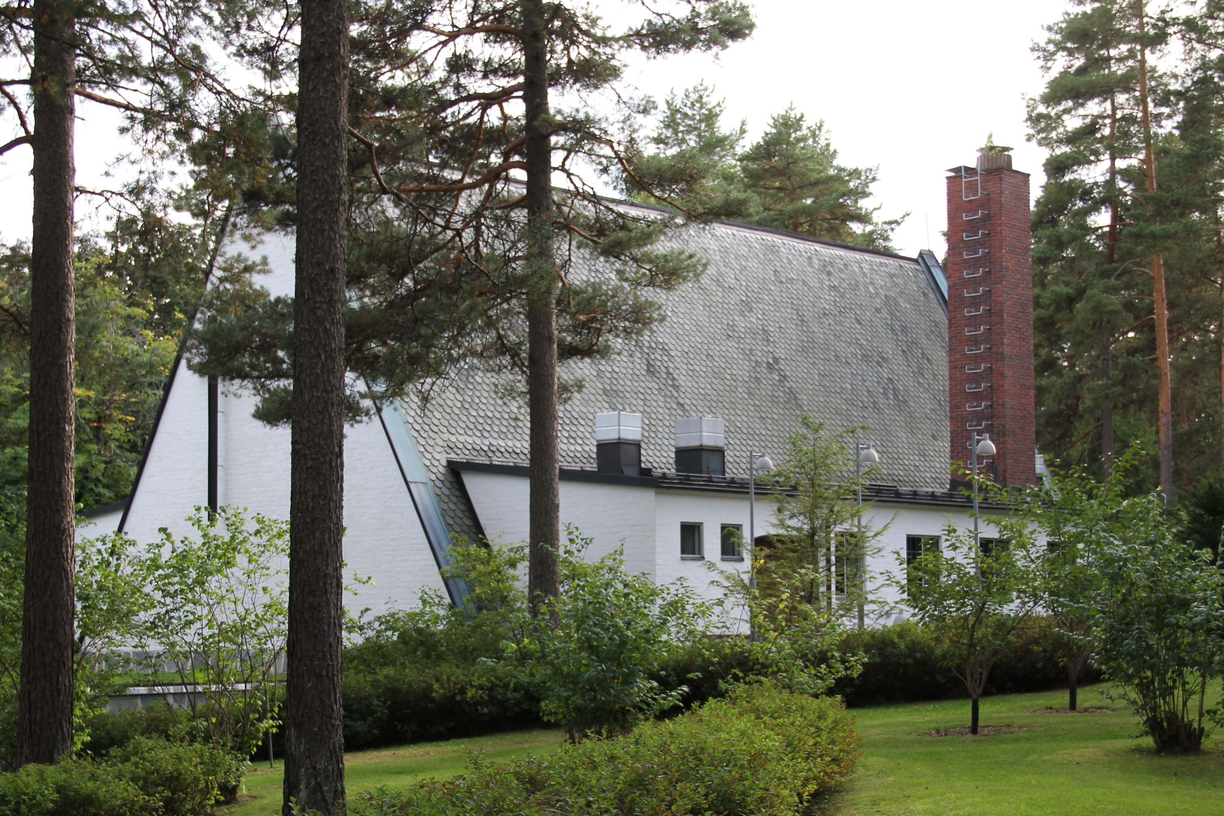 Metsola cemetery chapel in Metsola Cemetery, Lohja, Finland. Completed in 1956. Designed by architect Erik Bryggman. View from northeast.